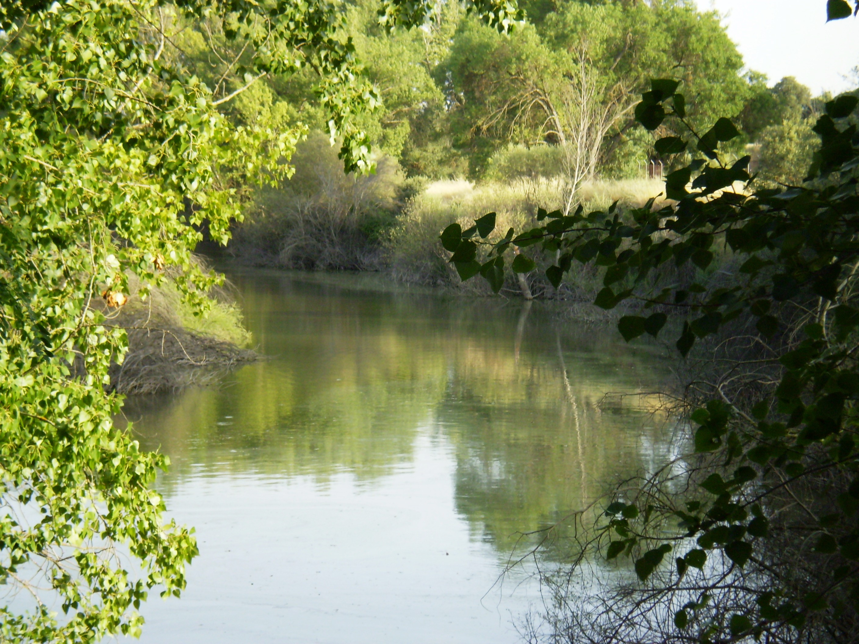 Manzanares River, in Monte de El Pardo. Community of Madrid, Spain